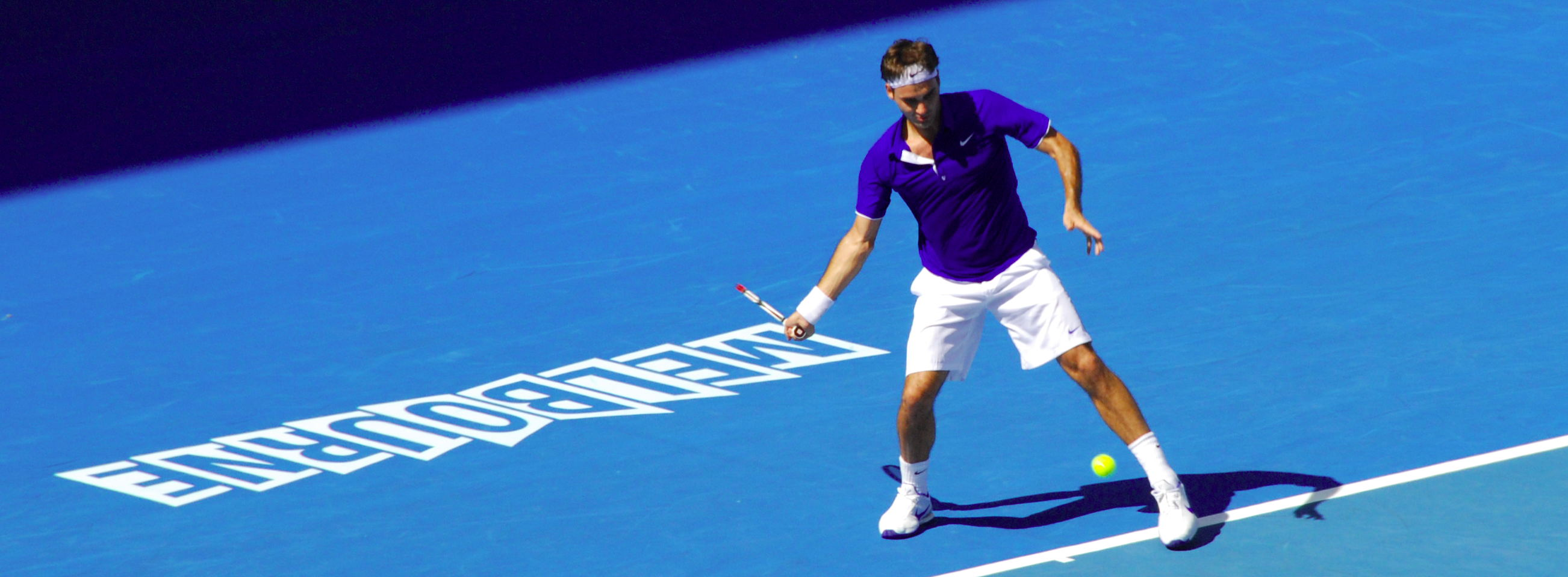 Roger Federer returning against Evgeny Korolev in the second round of the 2009 Australian Open